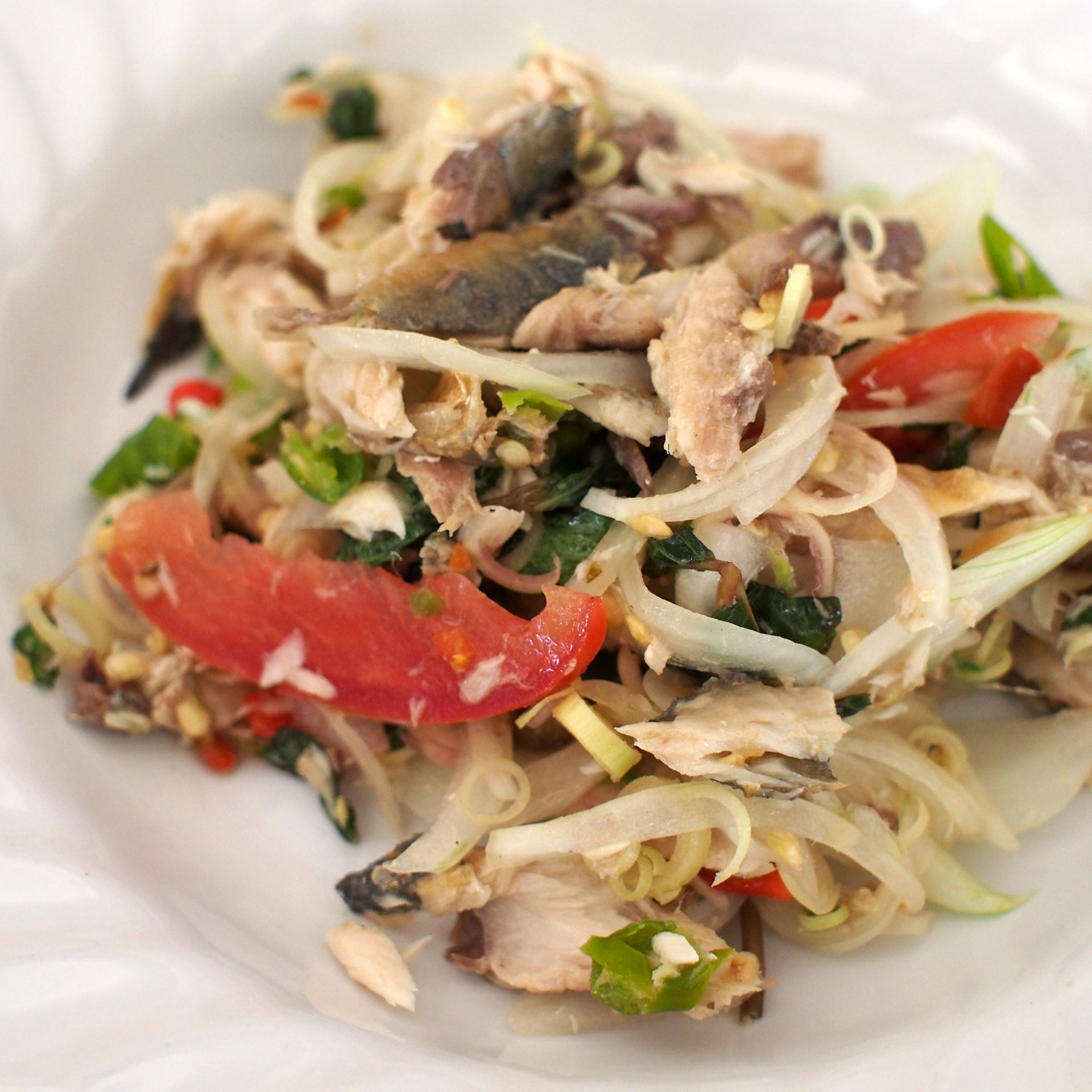 Yam pla thu (Thai script: ยำปลาทู) is a Thai salad made with pla thu (Short mackerel)